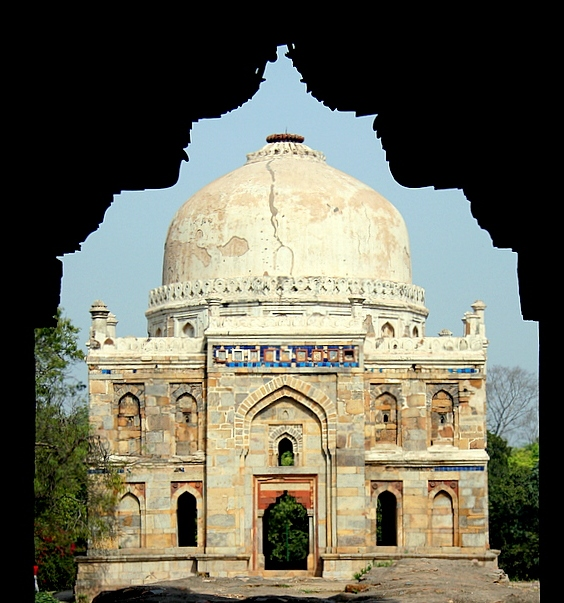 Sheesh Gumbad or glazed dome, take from the rear arch of the Bara Gumbad, Lodhi Garden, Delhi, India.